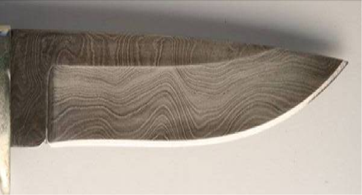 Nanotechnology - Damascus steel blade